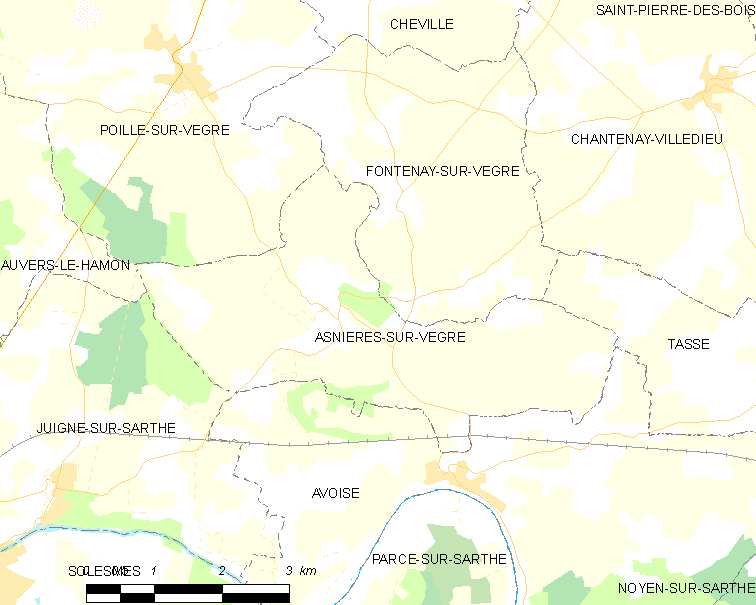 Map of French municipality